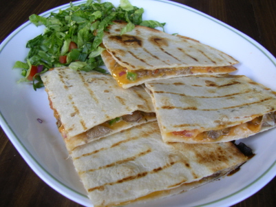 Lamb quesadillas made with leftover grilled lamb, cheddar cheese, red onion, and peppers from the garden